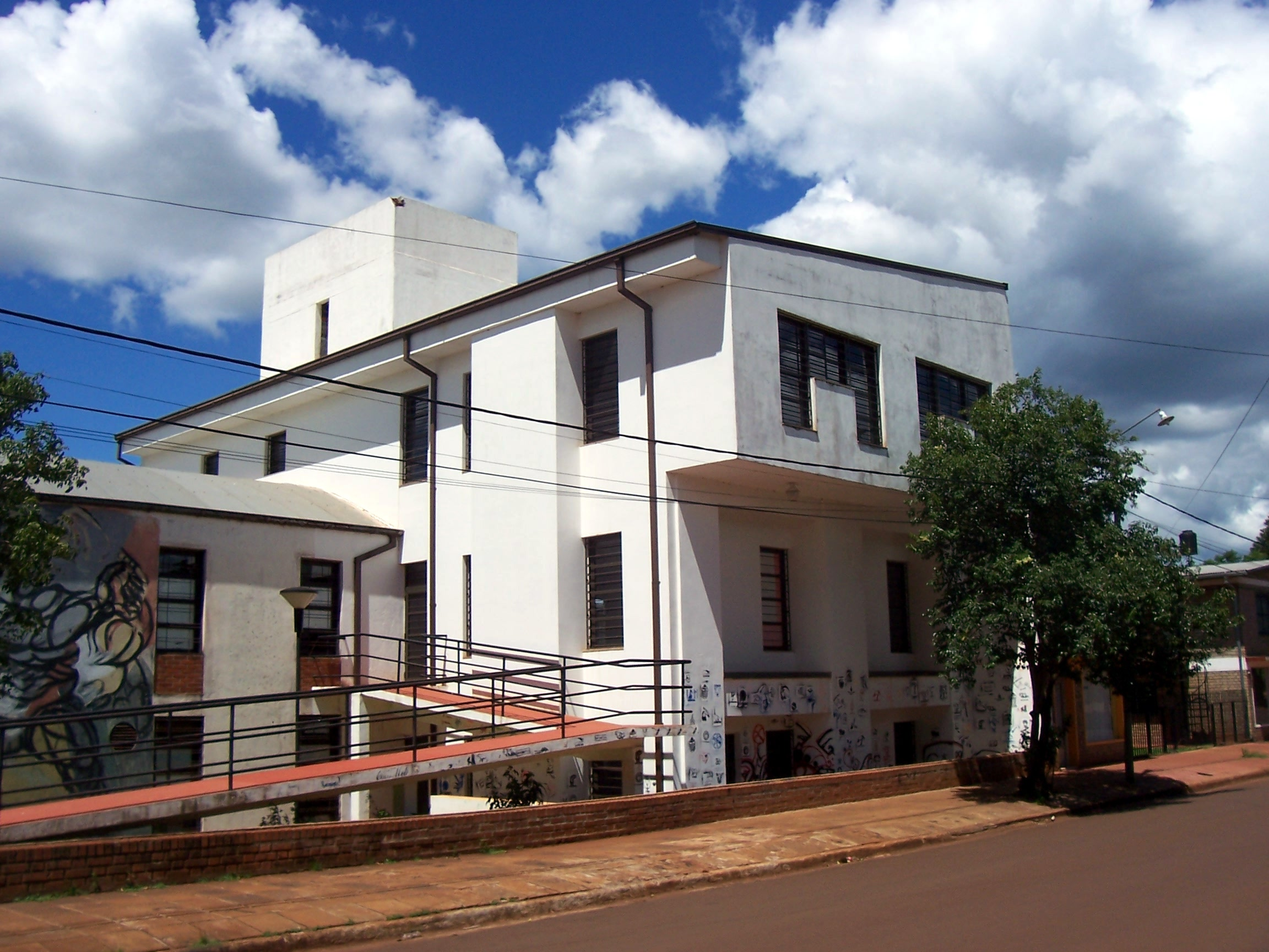 The Faculty of Arts of the National University of Misiones (UNaM) in Oberá.